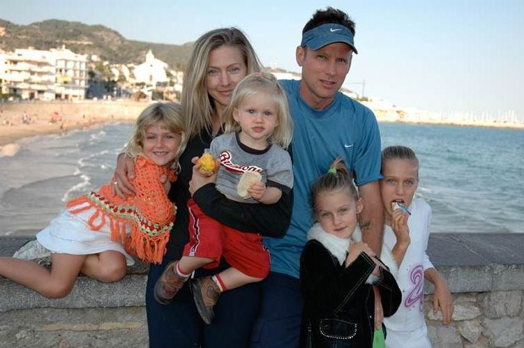 The family of singer Corey Hart in Spain, 2007